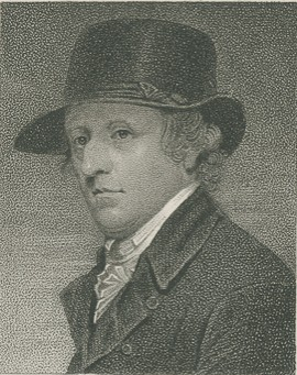 Portrait of John Disney (1746–1816), English Unitarian minister and biographer.